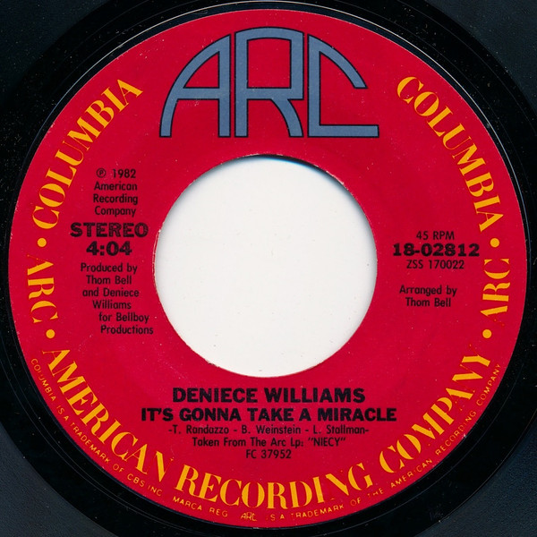 A-side track label of the US vinyl release of "It's Gonna Take a Miracle" by Deniece Williams